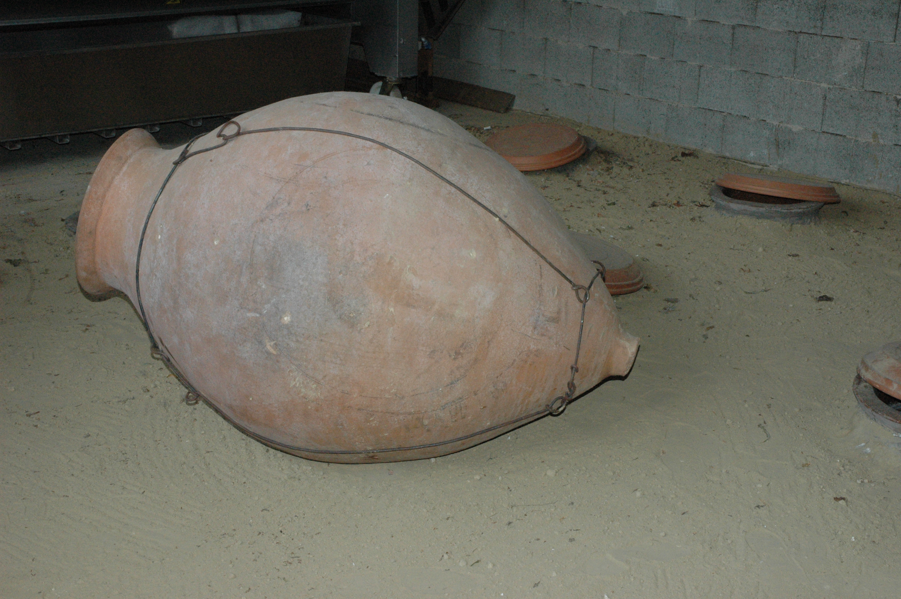 Amphore